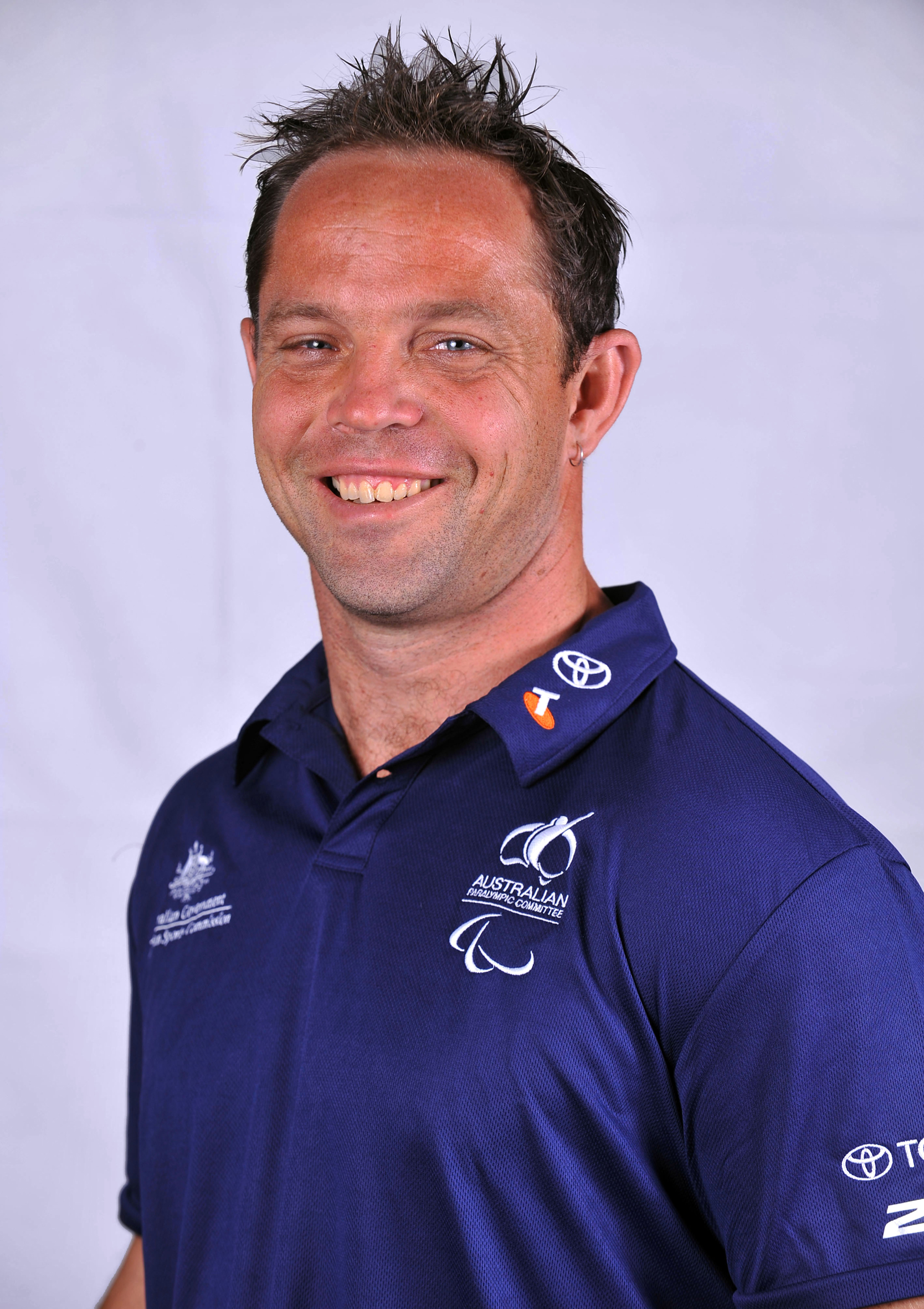 Portrait of Australian athlete Hamish MacDonald, 2012 Australian Paralympic (shadow) Team athlete